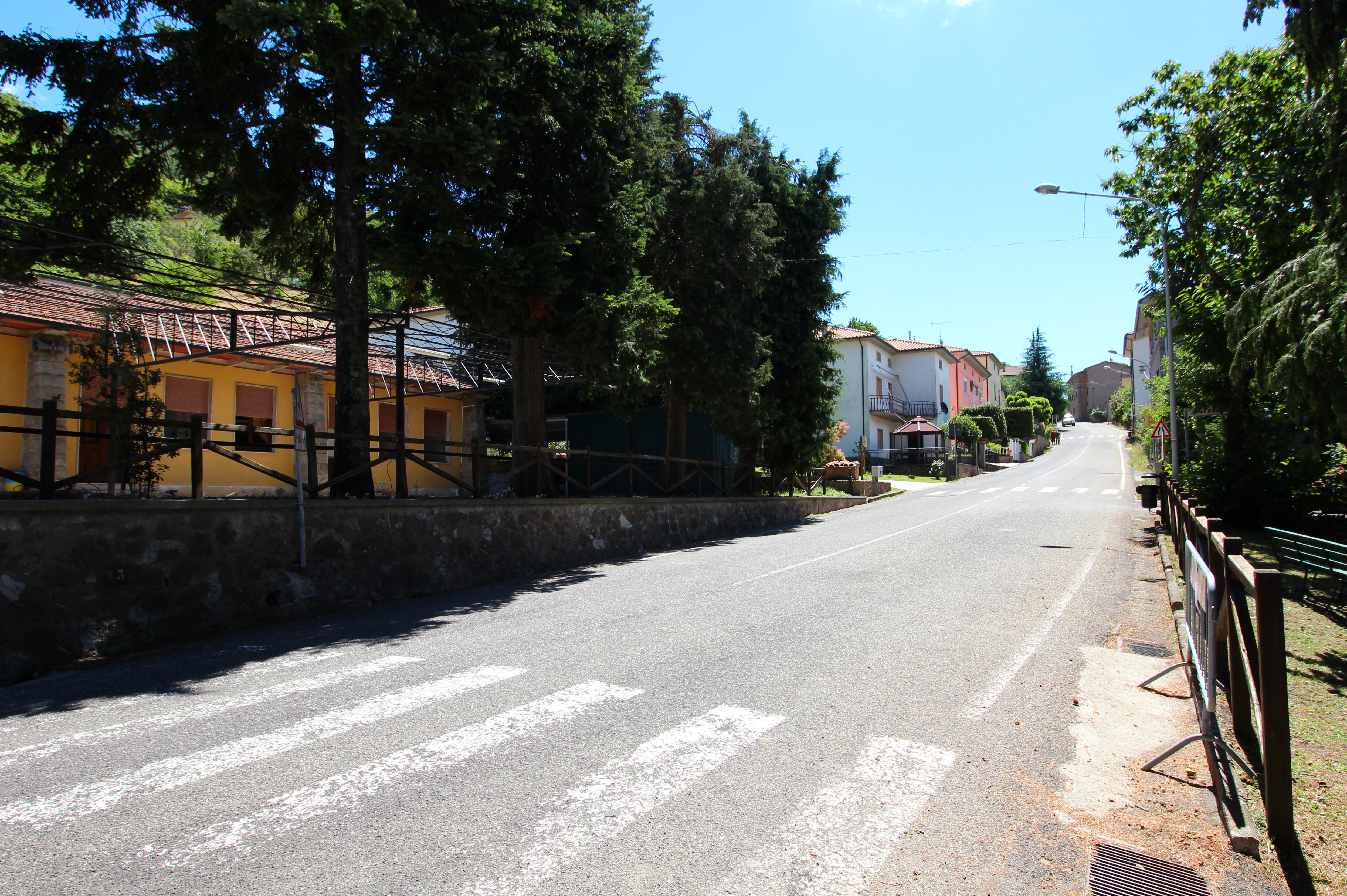 Selva, hamlet of Santa Fiora, Province of Grosseto, Tuscany, Italy